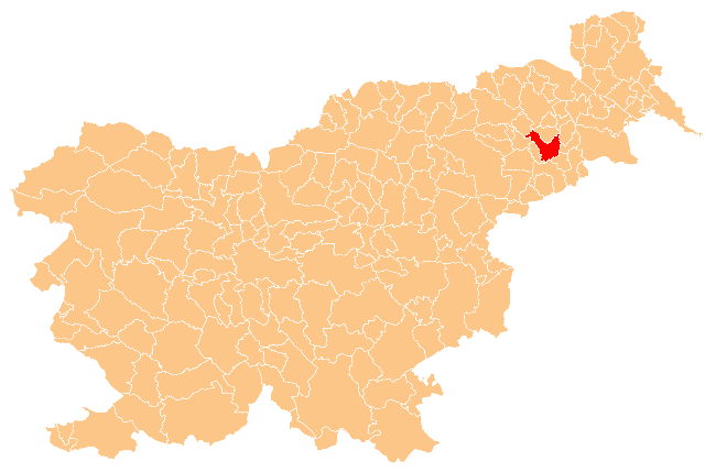 Localization of Ptuj in Slovenia.